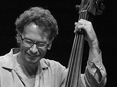 Larry Grenadier